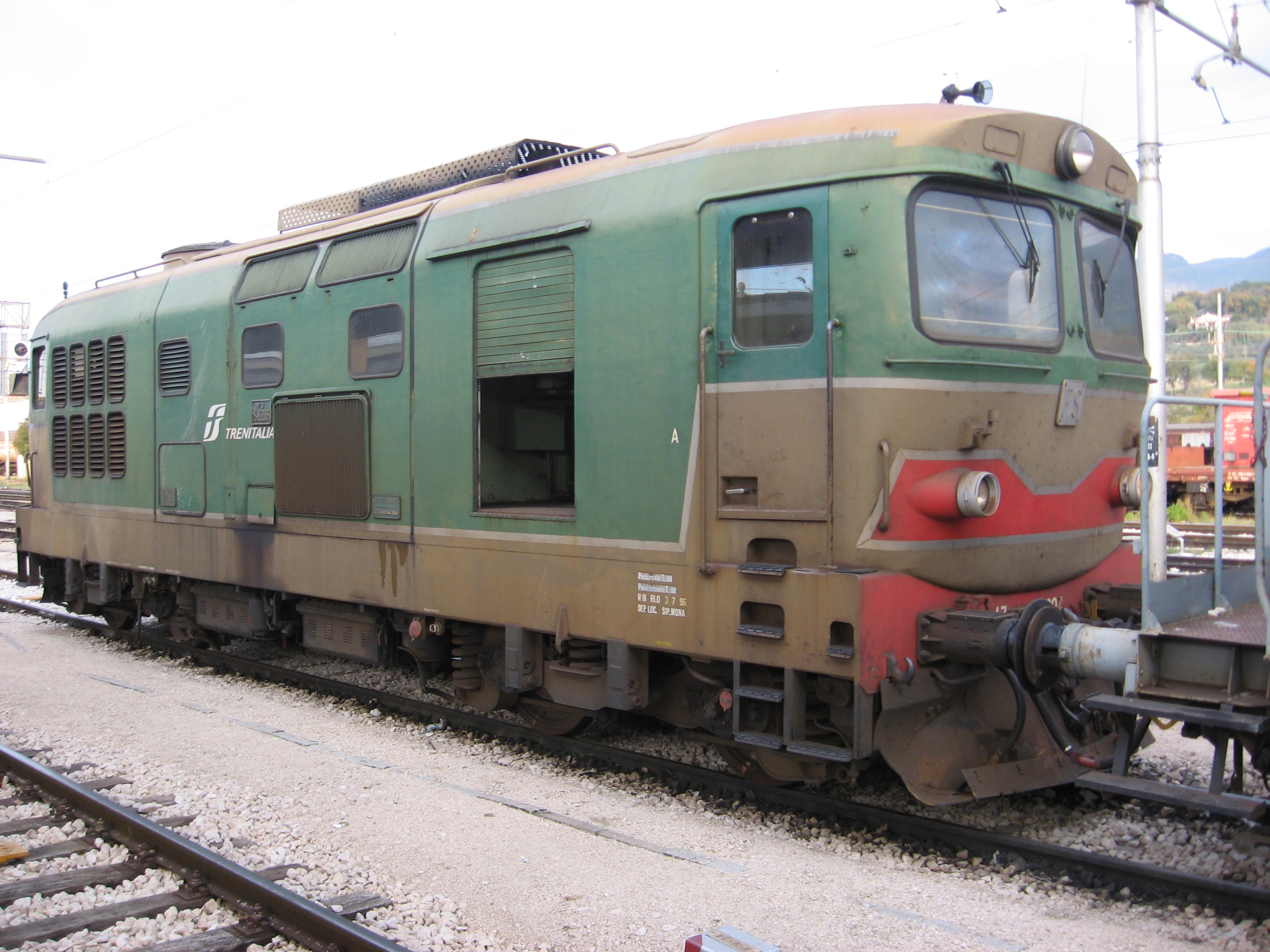 FS D.343.2003 service locomotive, Terni station, Italy